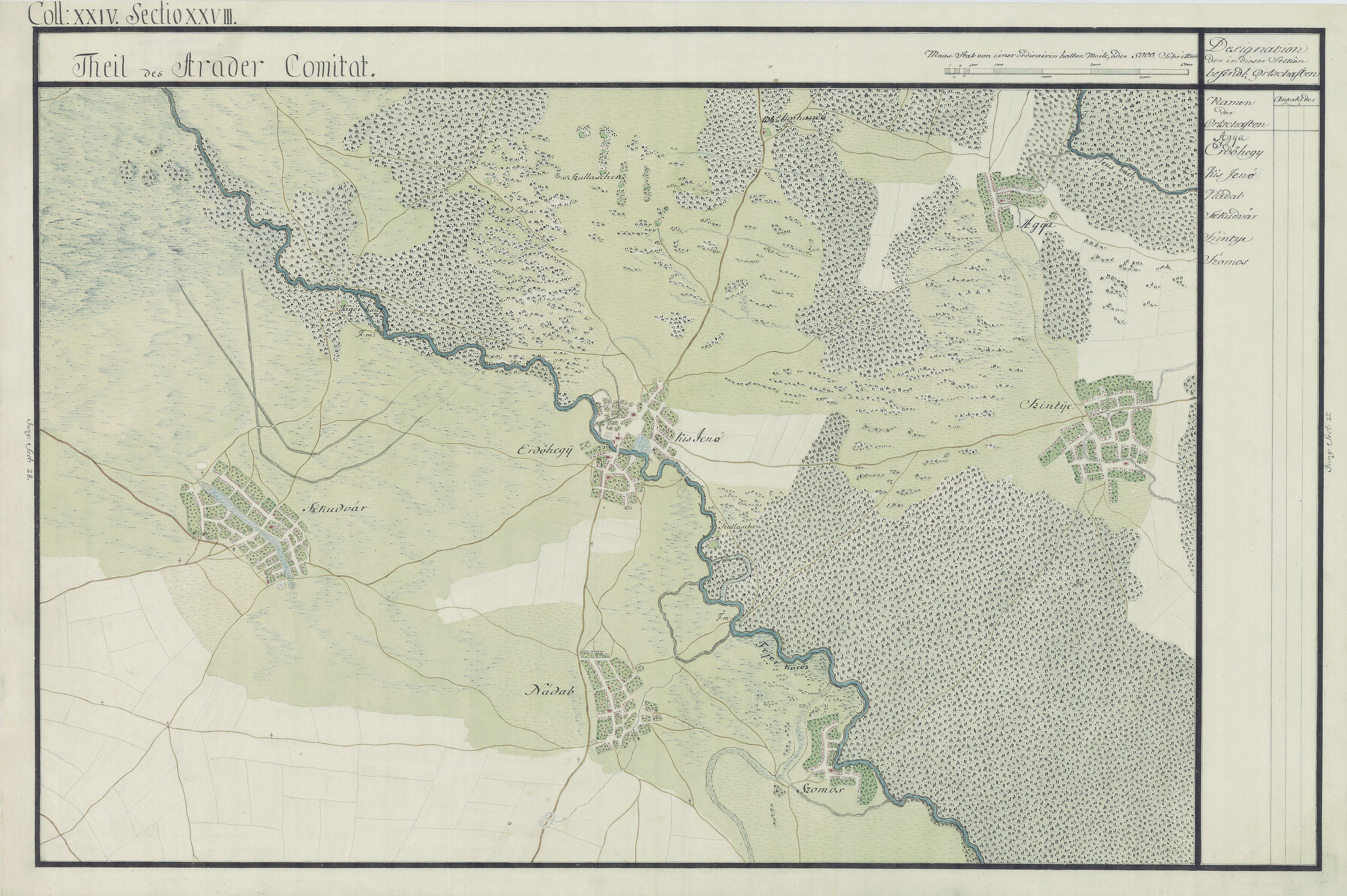 Arad County, 1782-85. Josephinische Landesaufnahme pg.24-28